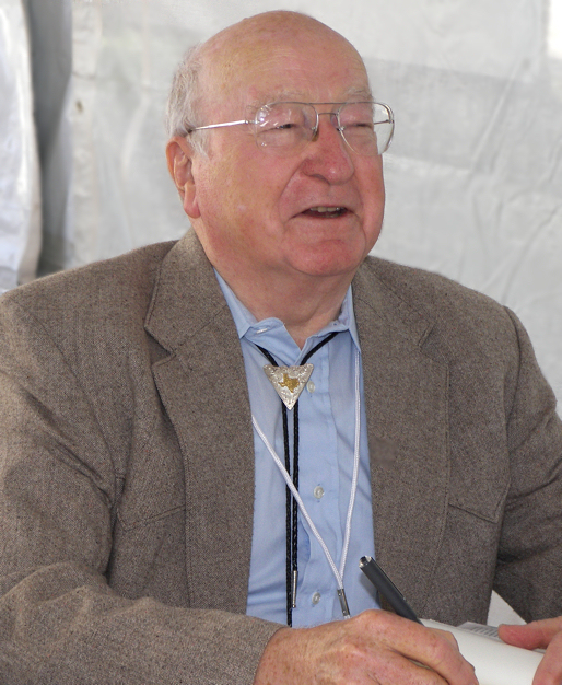 Elmer Kelton at the 2007 Texas Book Festival, Austin, Texas, United States.